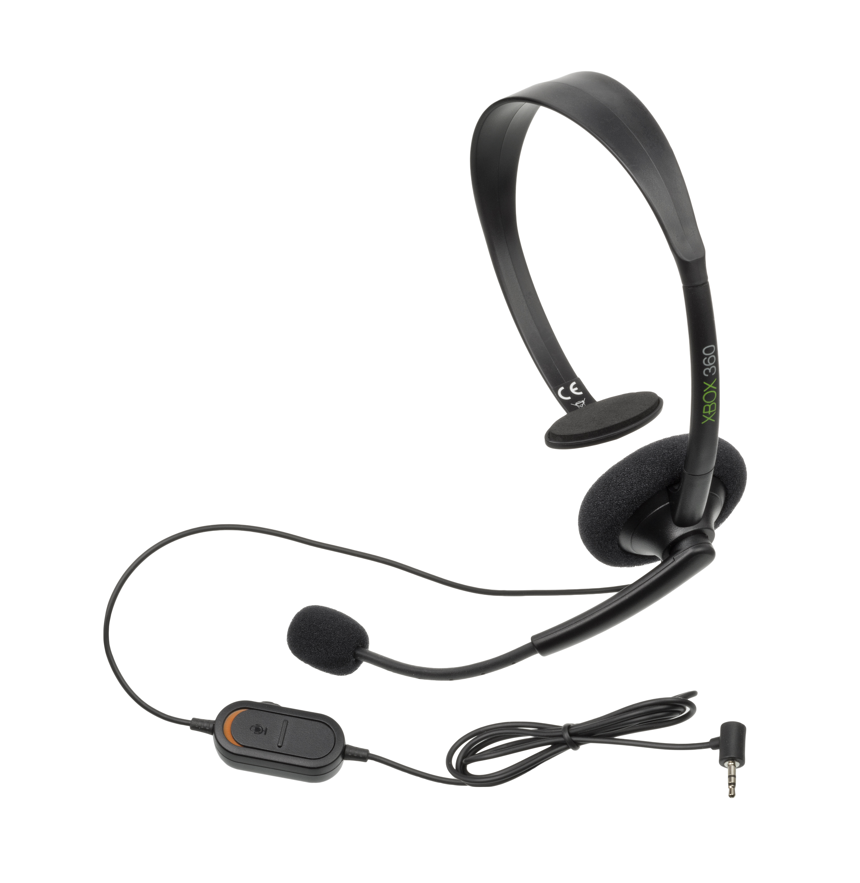 An audio headset for the Xbox 360 video game console. This is the version that came bundled with the "S" series of consoles.